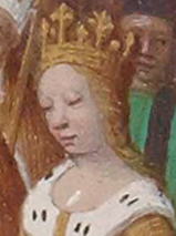 Marie de Luxembourg, Queen of France. The queen is depicted in a sideless surcoat.